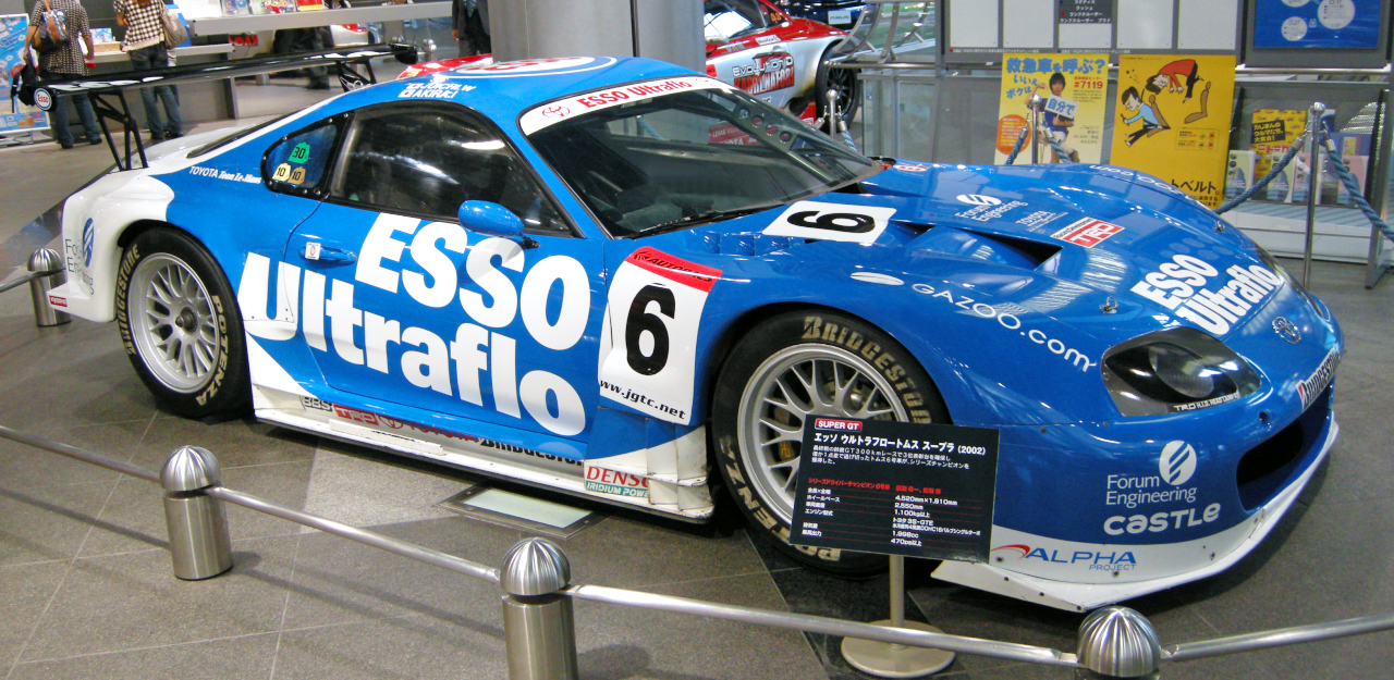 2002 JGTC Esso Ultraflo Tom's Supra photographed in aMLUX (Toshima, Tokyo)